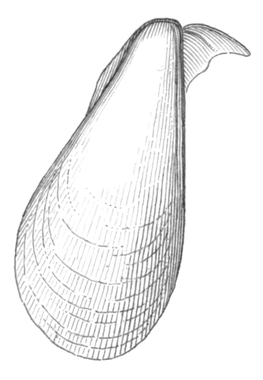 Drawing of external view of the one jaw of Fiona pinnata. Cuting edge is on the top right. Expanded lobe on the dorsal margin for muscular attachment is on the top left.